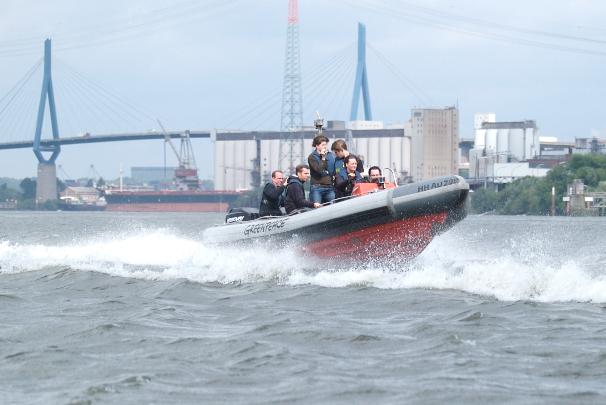 Greenpeace boat on the Elbe, Hamburg, Germany.